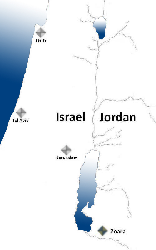 The current location of the ancient city of Zoara